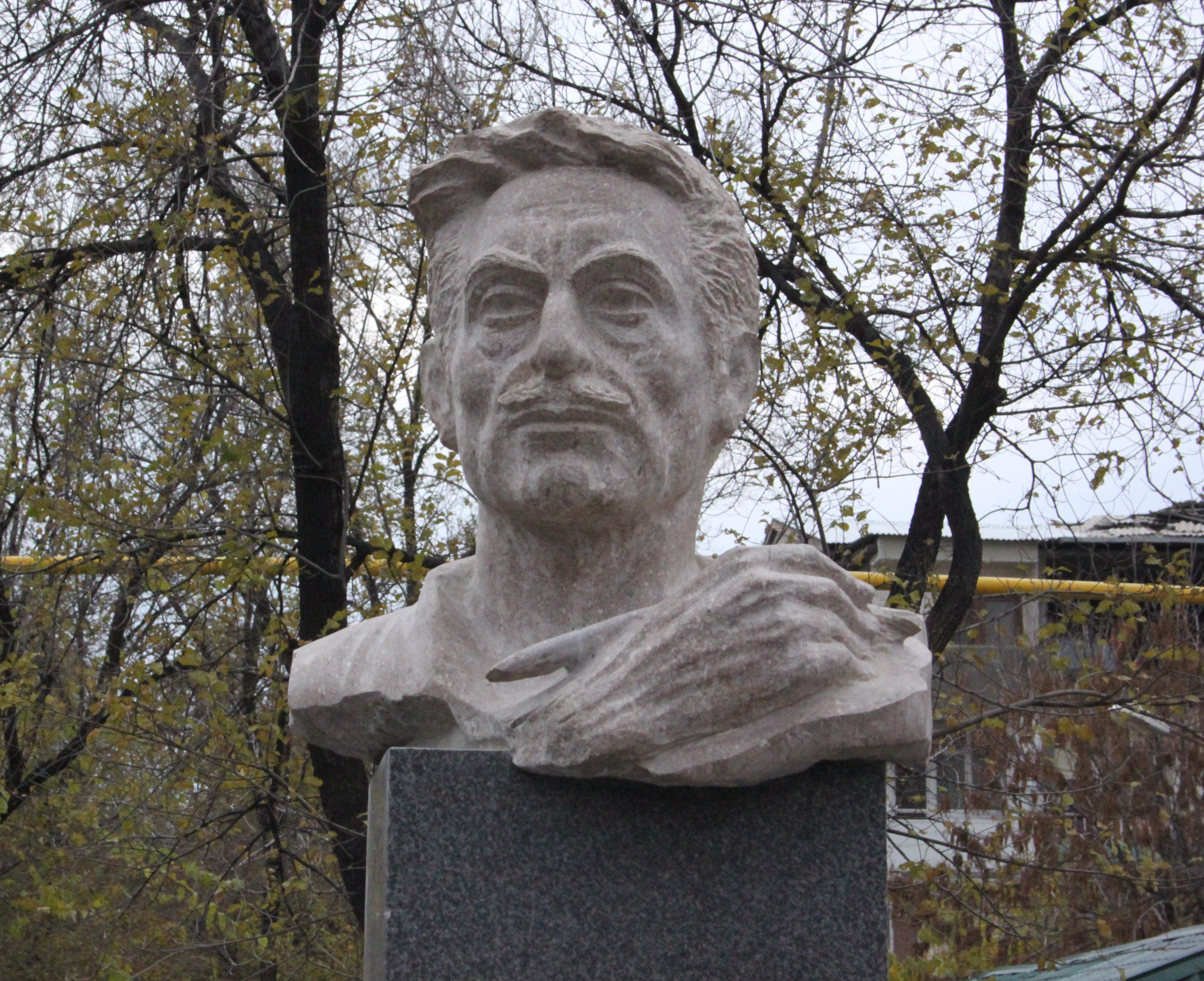 Yeghishe Tadeosyan bust in Shengavit district of Yereavn, 2015